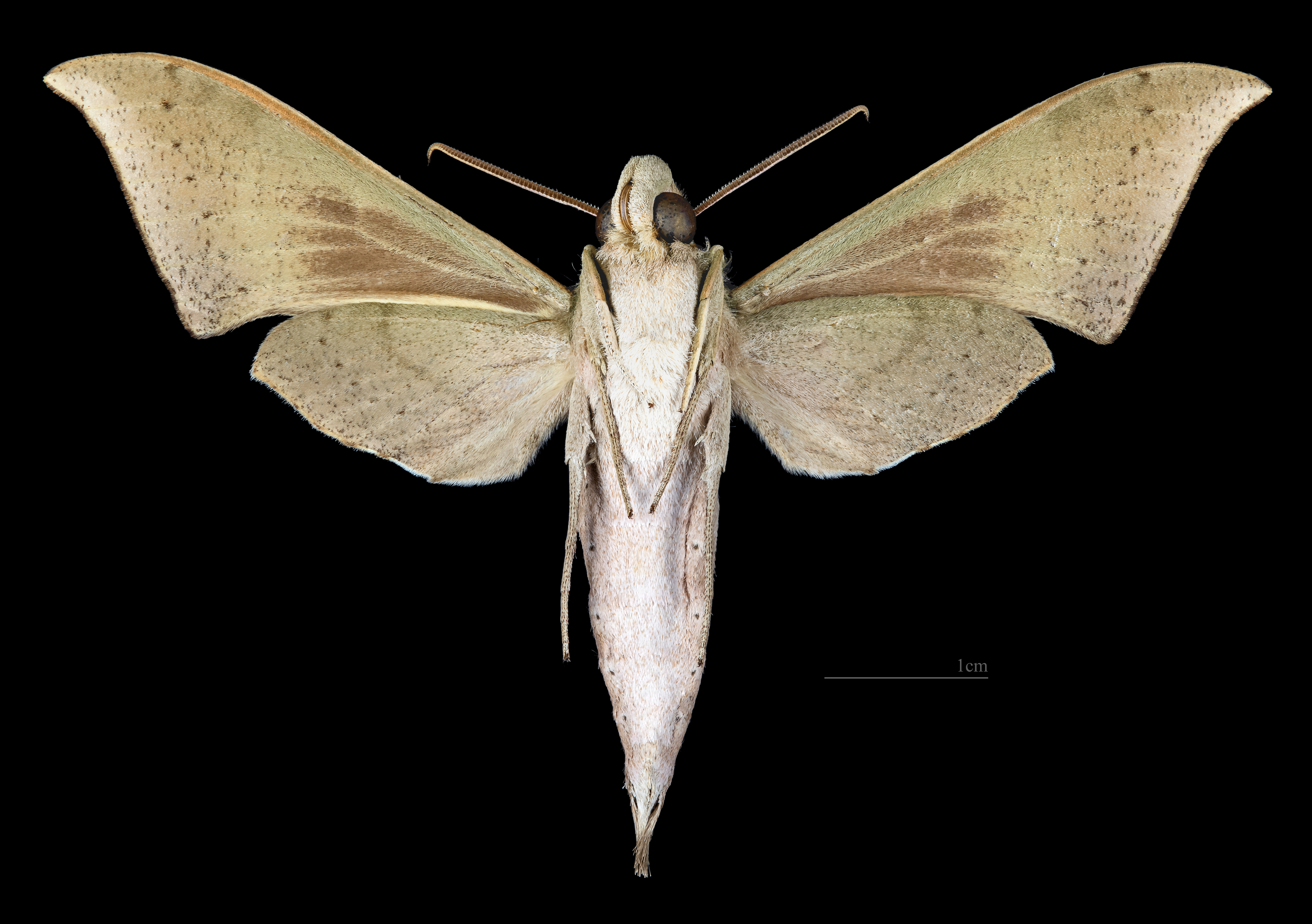 Xylophanes hannemanni - △ Ventral side Collection of the Mathematician Laurent Schwartz